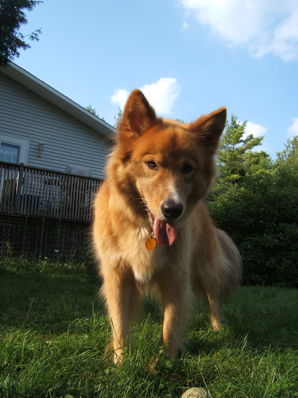 Karelo-Finnish Laika (Lambert)